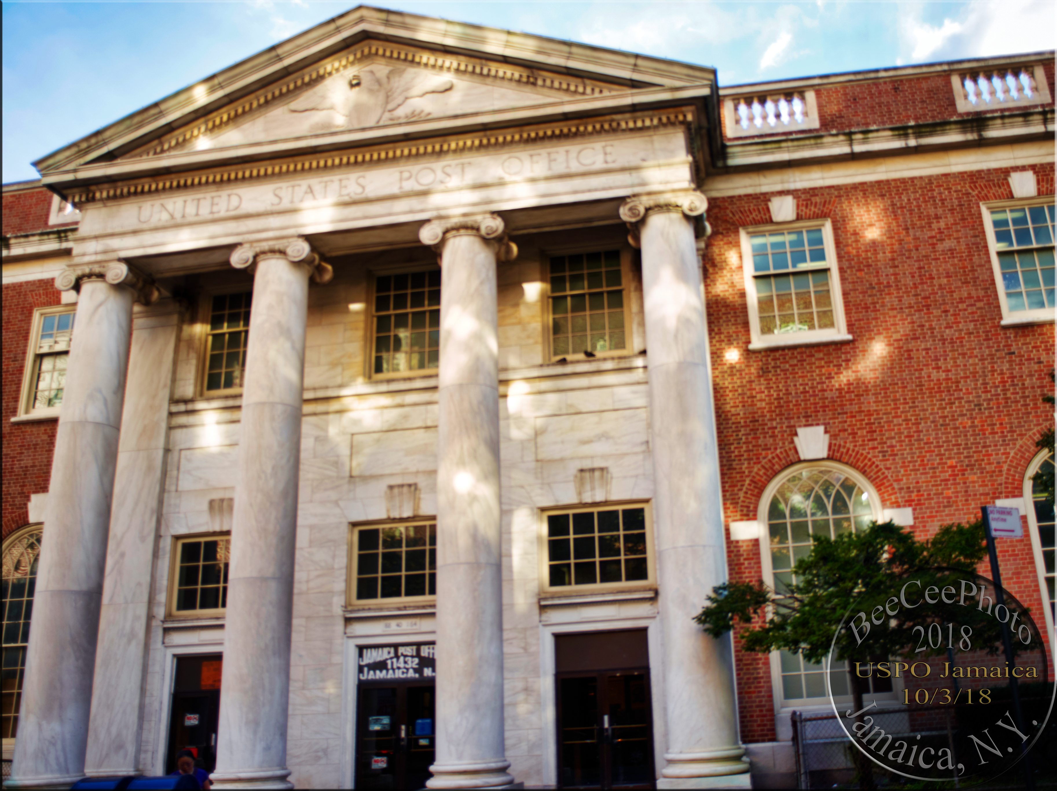 The main Post Office in Jamaica